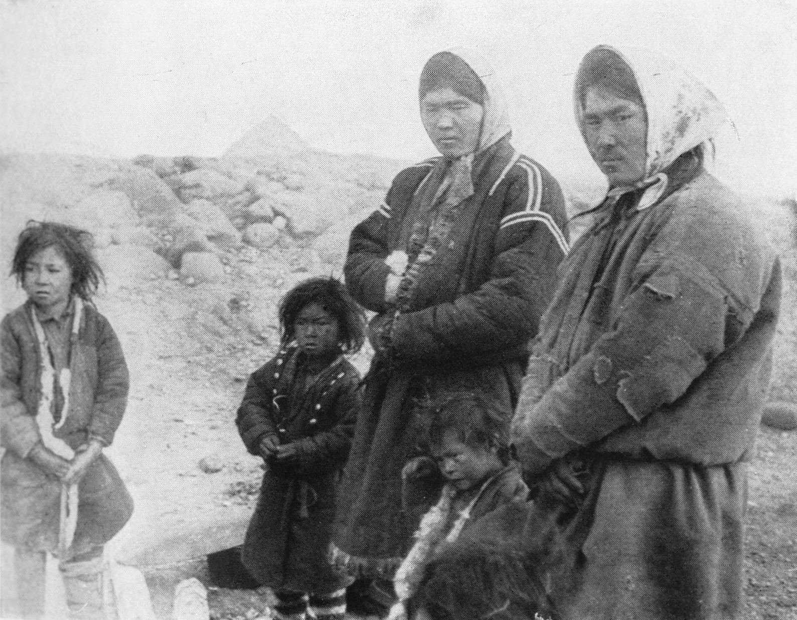 Yenisei-Ostiaks women and children